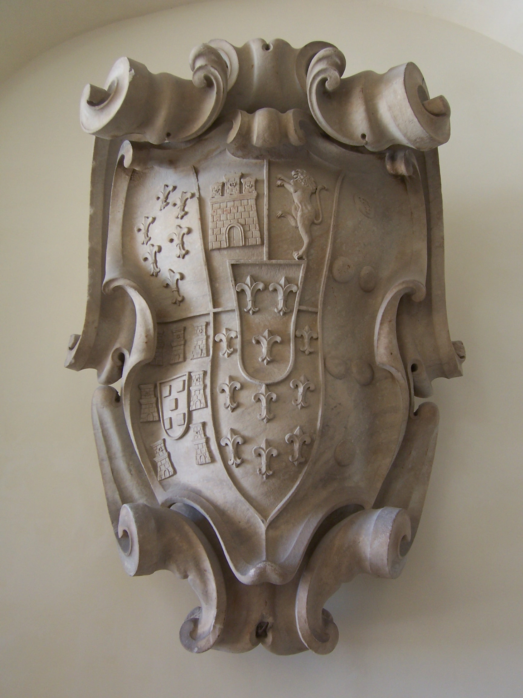 Naples, Vomero, Museo di San Martino - Stemma